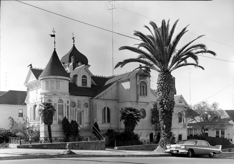 Villa Montezuma, 1925 K Street, San Diego, San Diego County, CA. North elevation (K Street). Also known as Jesse Shepard House. Building/structure dates: 1887 initial construction. Historic American Buildings Survey—HABS image.